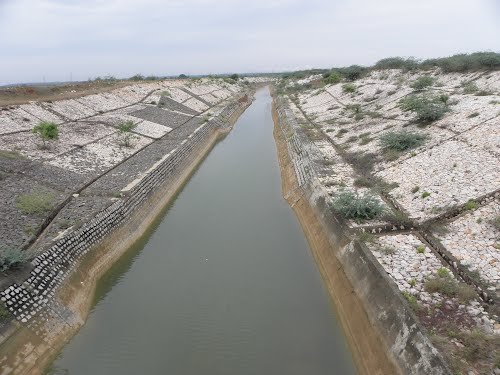 Canal in Nagari Other information Galeru Nagari Canal in Nagari